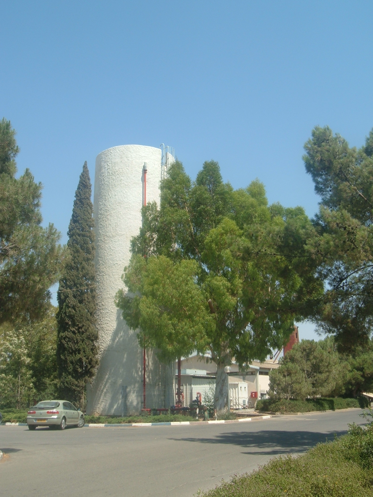 Water tower in Kibutz Eyn Dor, Israel מגדל המים בקיבוץ עין דור, ישראל